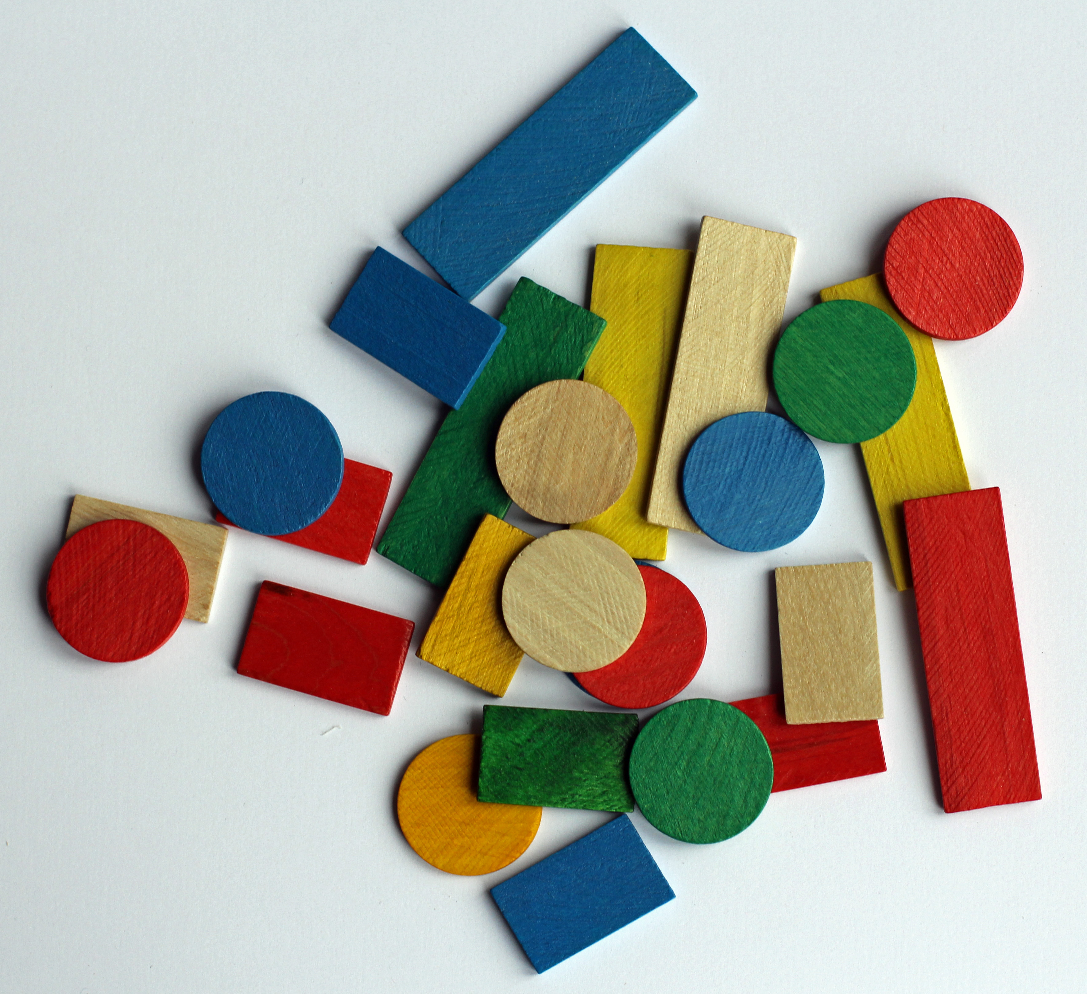 Coloured wooden jetons of the type used in card games, particularly in France, for example: Belote, Nain Jaune. Also used in Danish Tarok.